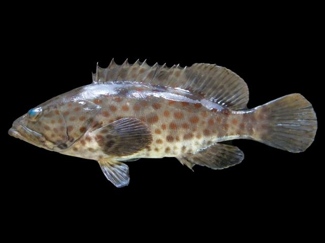 Epinephelus coioides collecyed in Thailand (Kampuan mangrove forest at Amphoe Suksamran, Ranong province, southern Thailand)